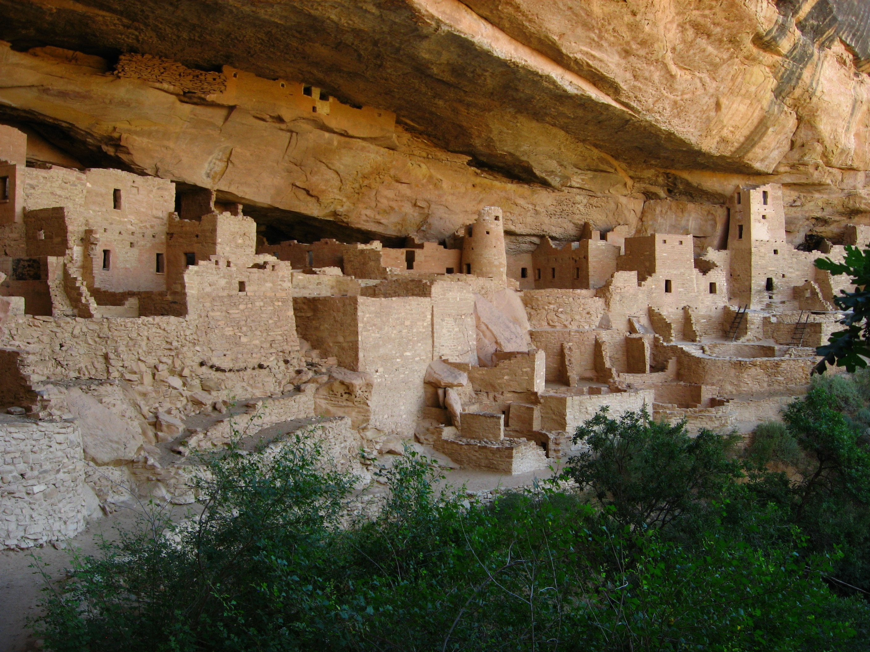 The Cliff Palace guided tour is a must-do at Mesa Verde National Park. Although you can get a great view of Cliff Palace without taking the tour, the tour makes it so much better.